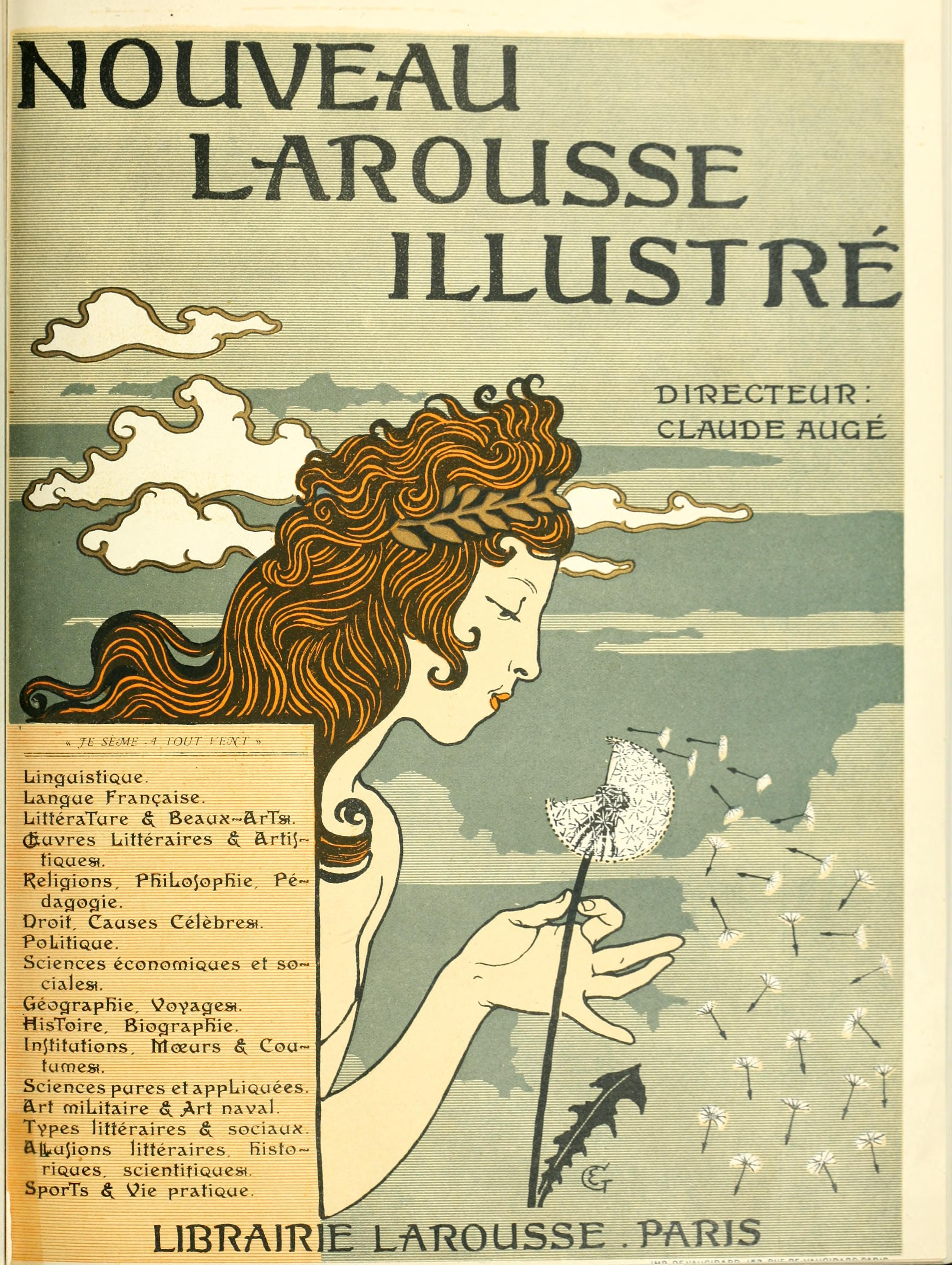 Inside cover of the "Nouveau Larousse illustré", (New Larousse illustrated) encyclopedia